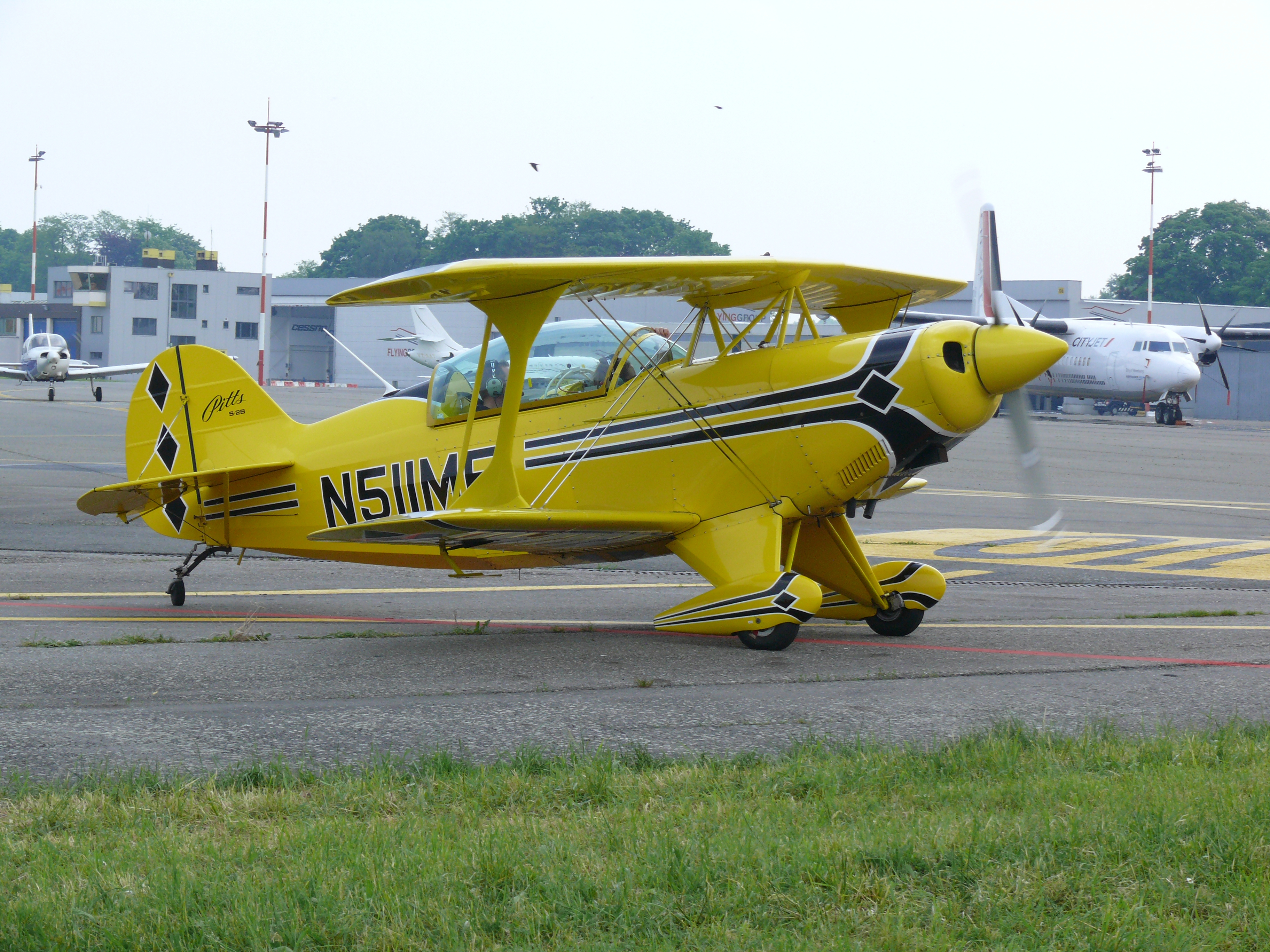 Pitts S-2B Special N511MF (1988, c/n 5149) at the Stampe Fly In 2012.